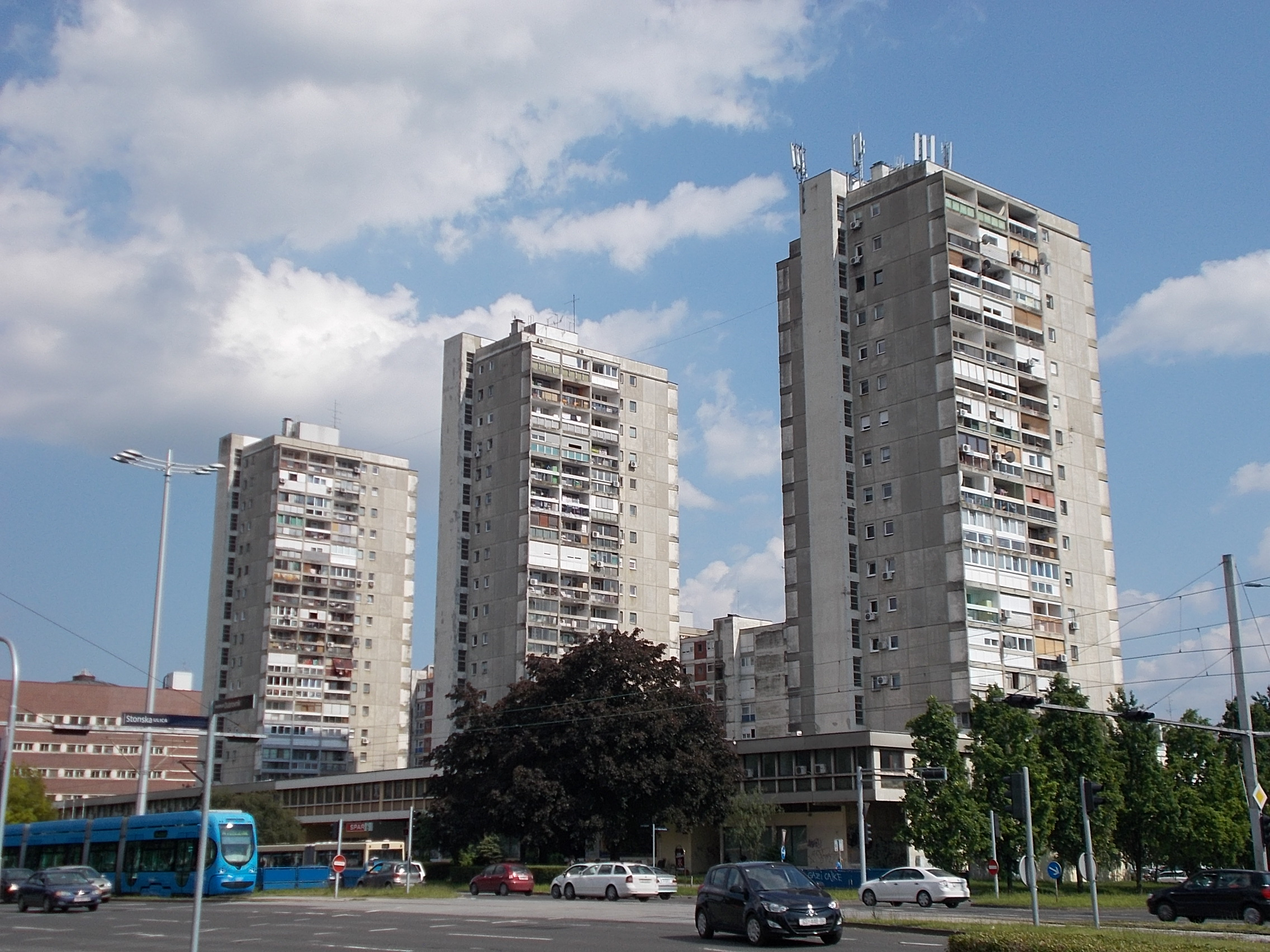 Residental buildings in Sopot, Novi Zagreb.